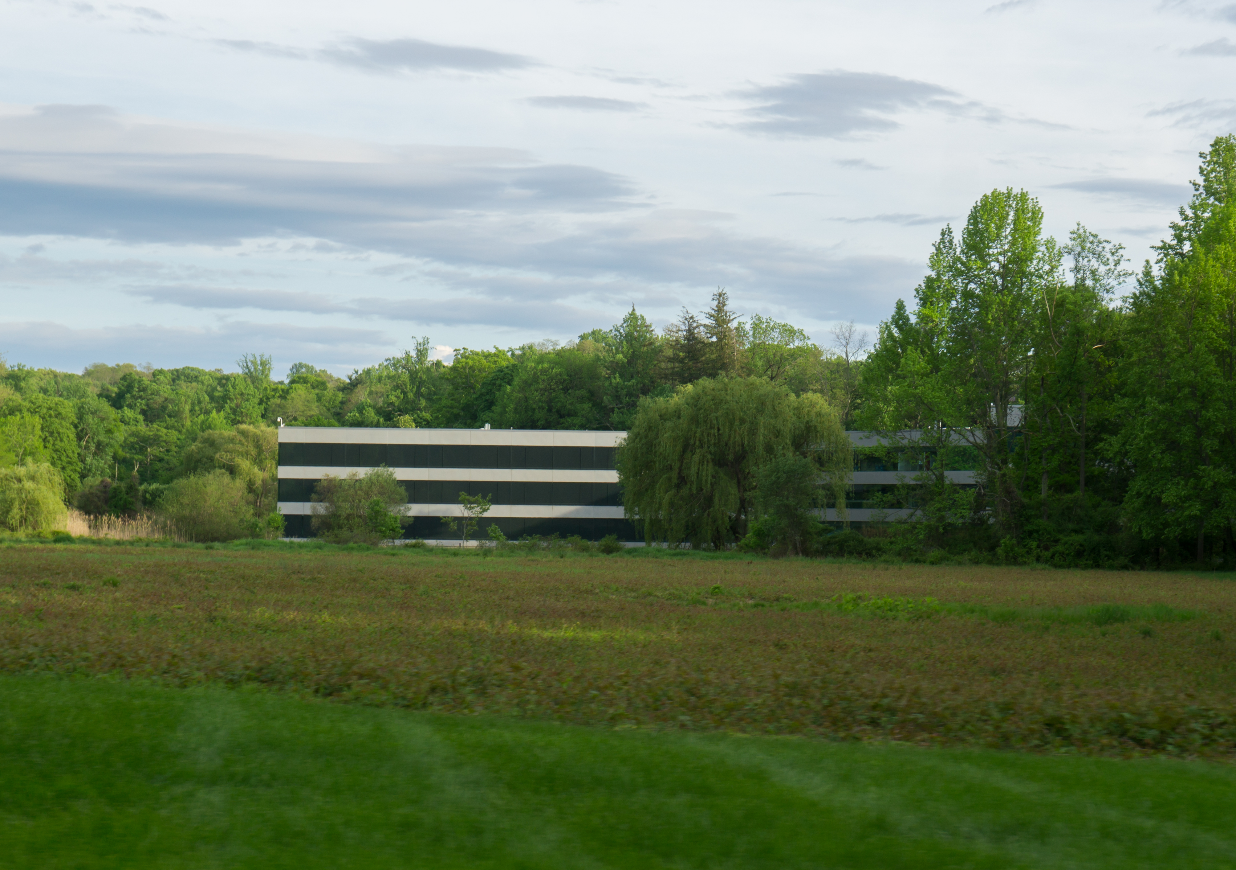 Rockwood Hall in 2018!